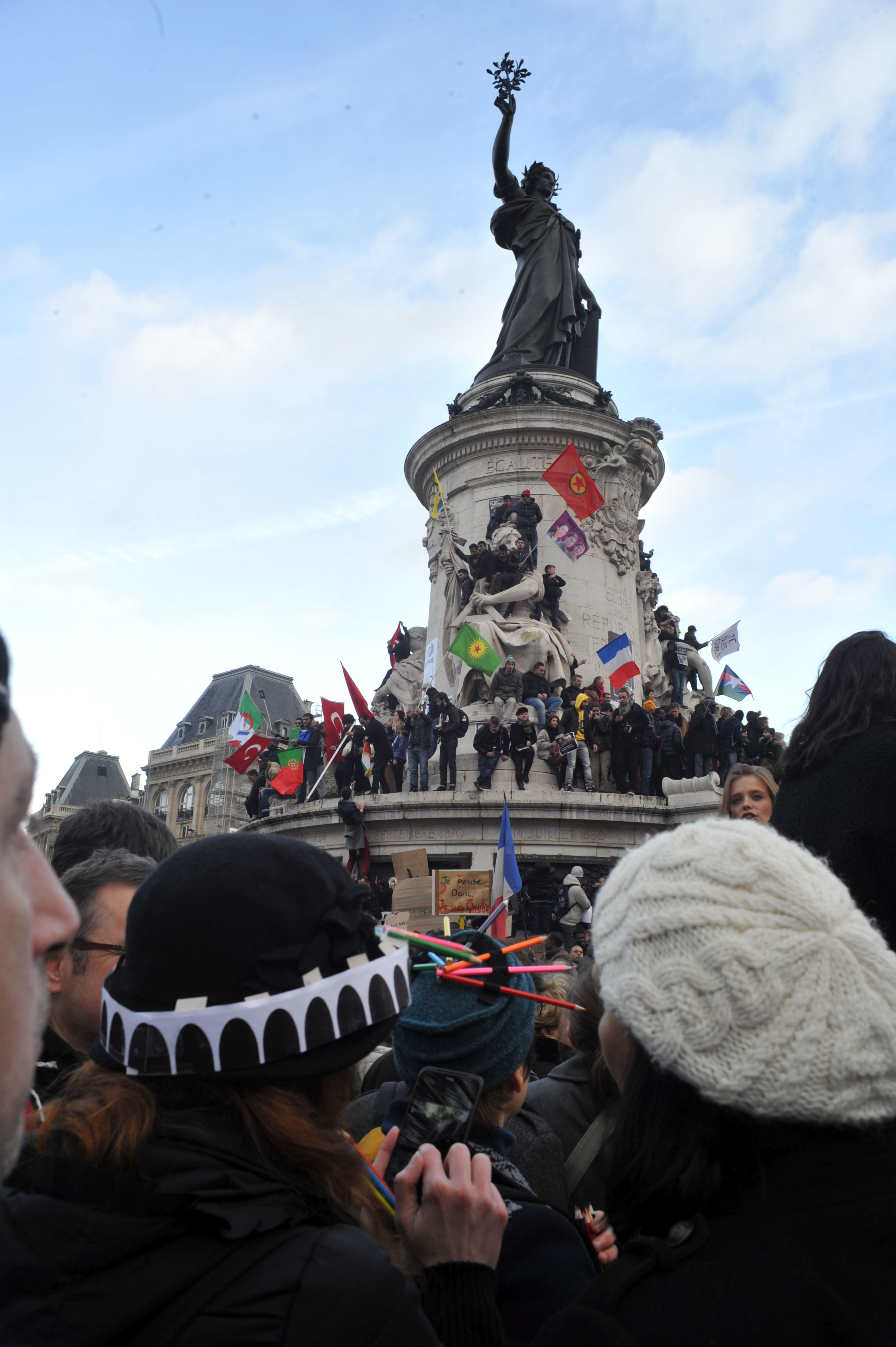 Paris rally in support of the victims of the 2015 Charlie Hebdo shooting, 11 January 2015.